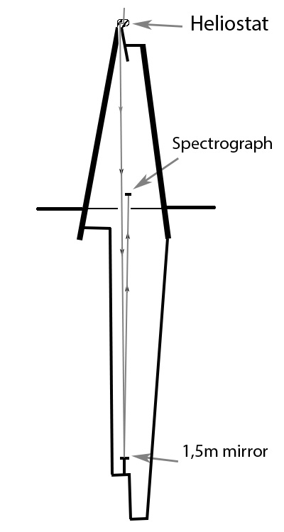 This diagram shows the course done by the ray of light in the telescope.